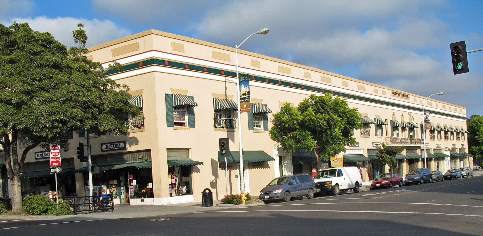 Registered Historic Places in Alameda County, California. Green Shutter Hotel, 22650 Main St, Hayward, California, USA. Photographed 2008-08-17 from the northwest corner of Main and B Sts.